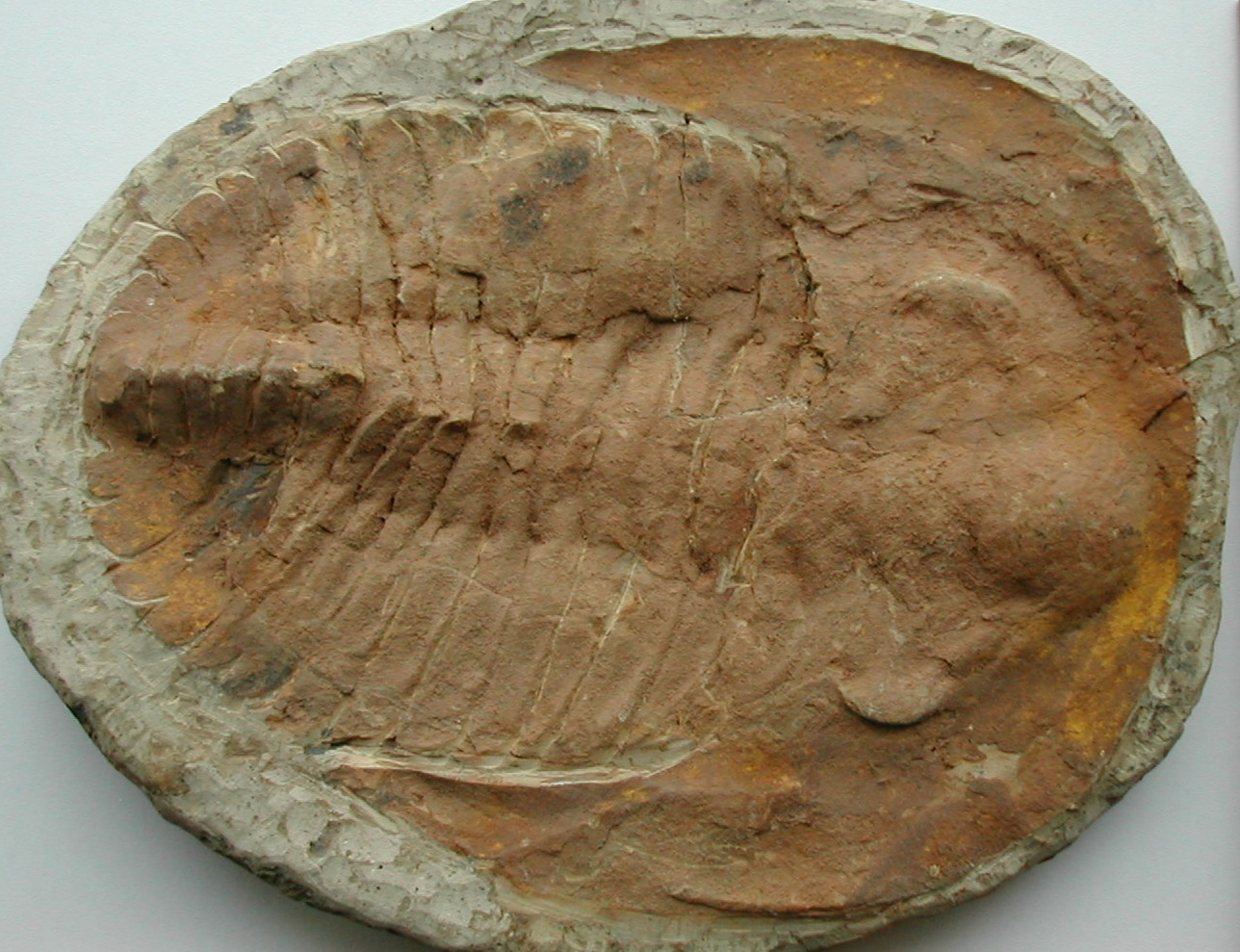 Fake Cambropalas Tellesto